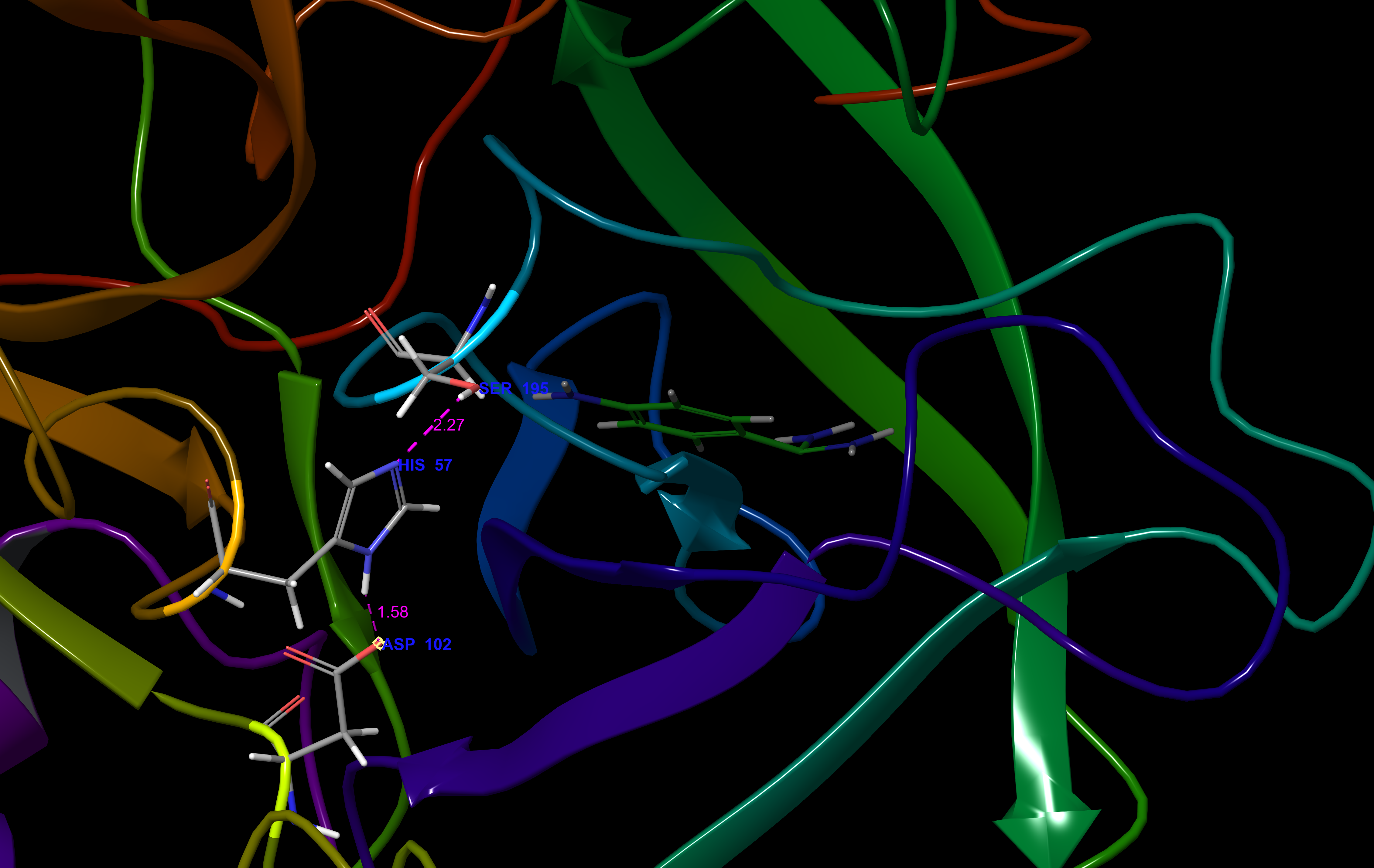 Acrosin active site residues. PDB: 1FIW.